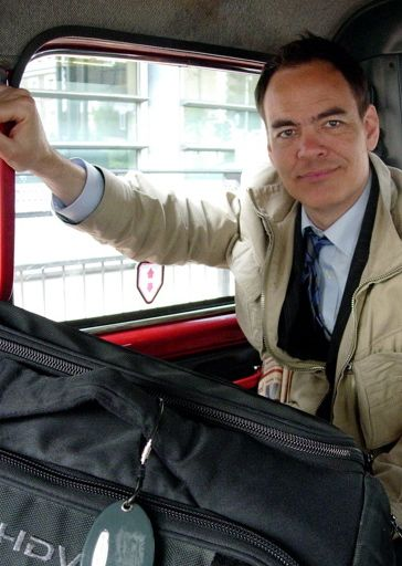 TV Presenter and Journalist Max Keiser, pictured in a London taxi.